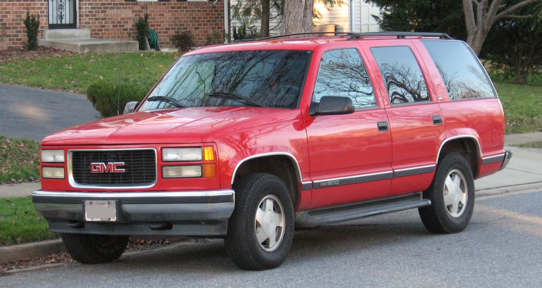 1992-1999 GMC Yukon photographed in USA.